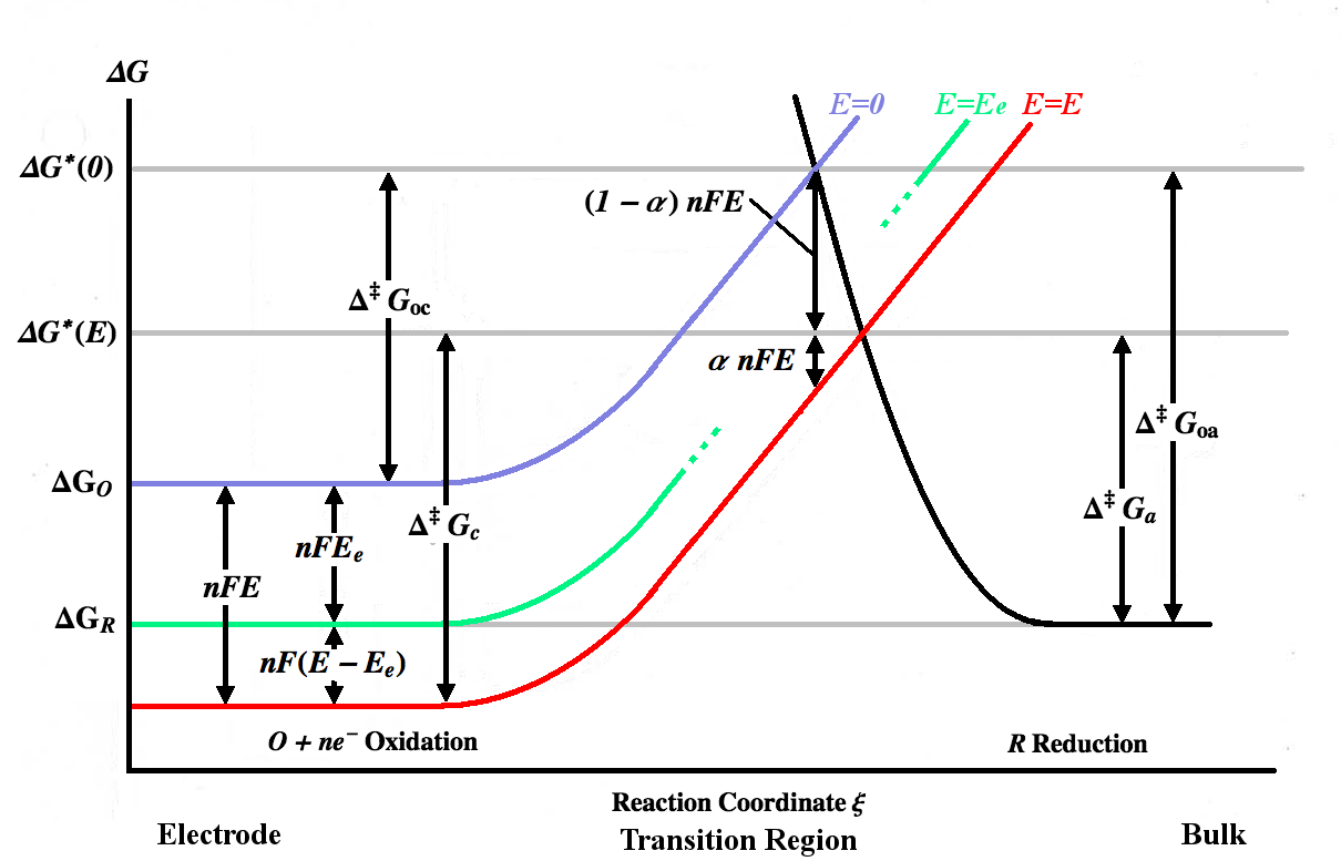 A plot of various Gibbs energies as a function of reaction coordinate used for deriving the Butler-Volmer equation.